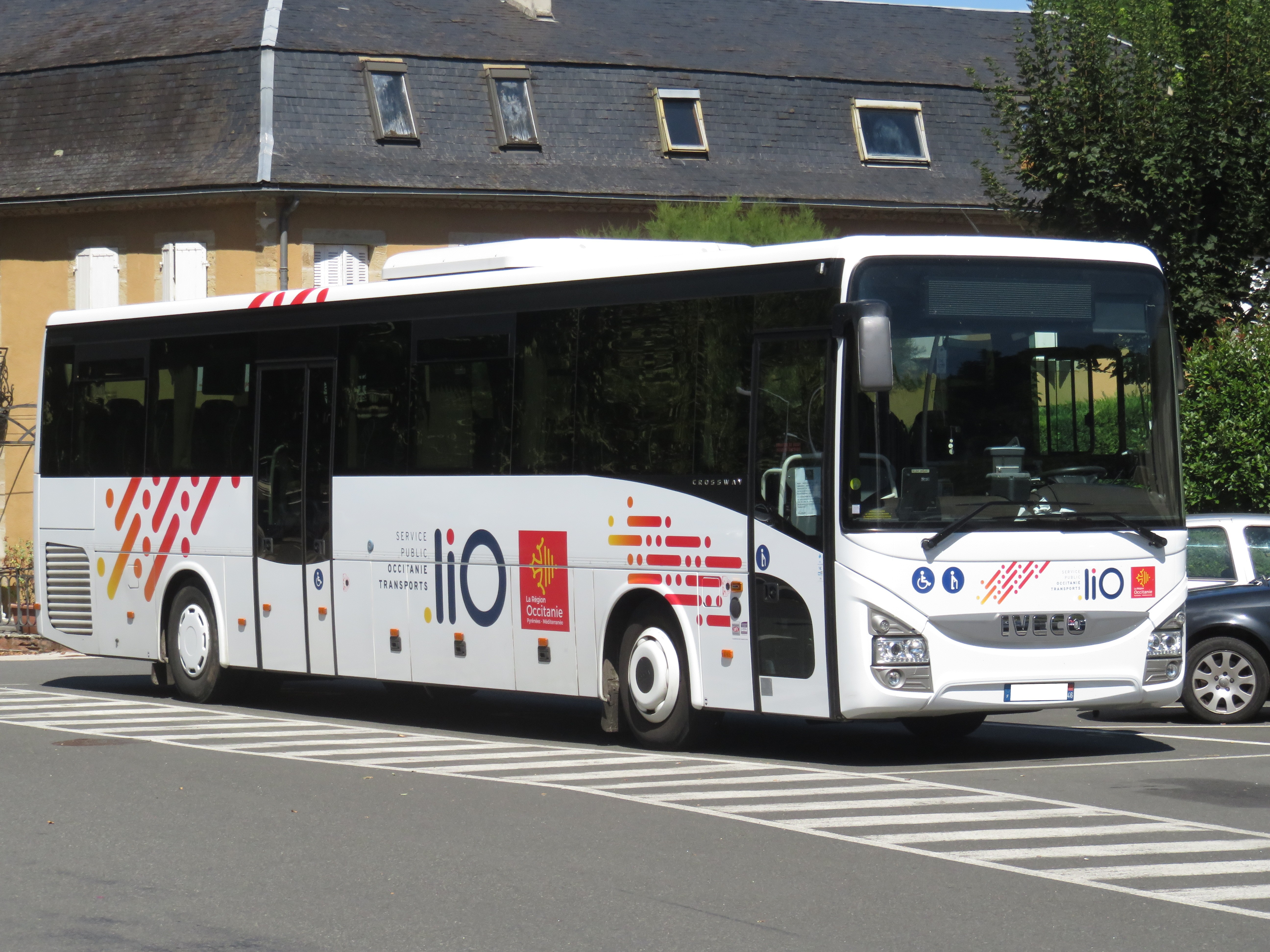 An Iveco Crossway (Raynal Voyages) parked at the train station (Figeac, France) on August 27, 2018.